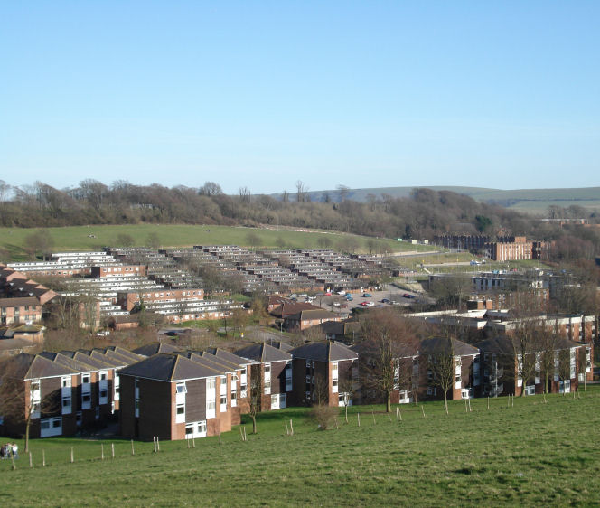 Picture of accommodation at University of Sussex